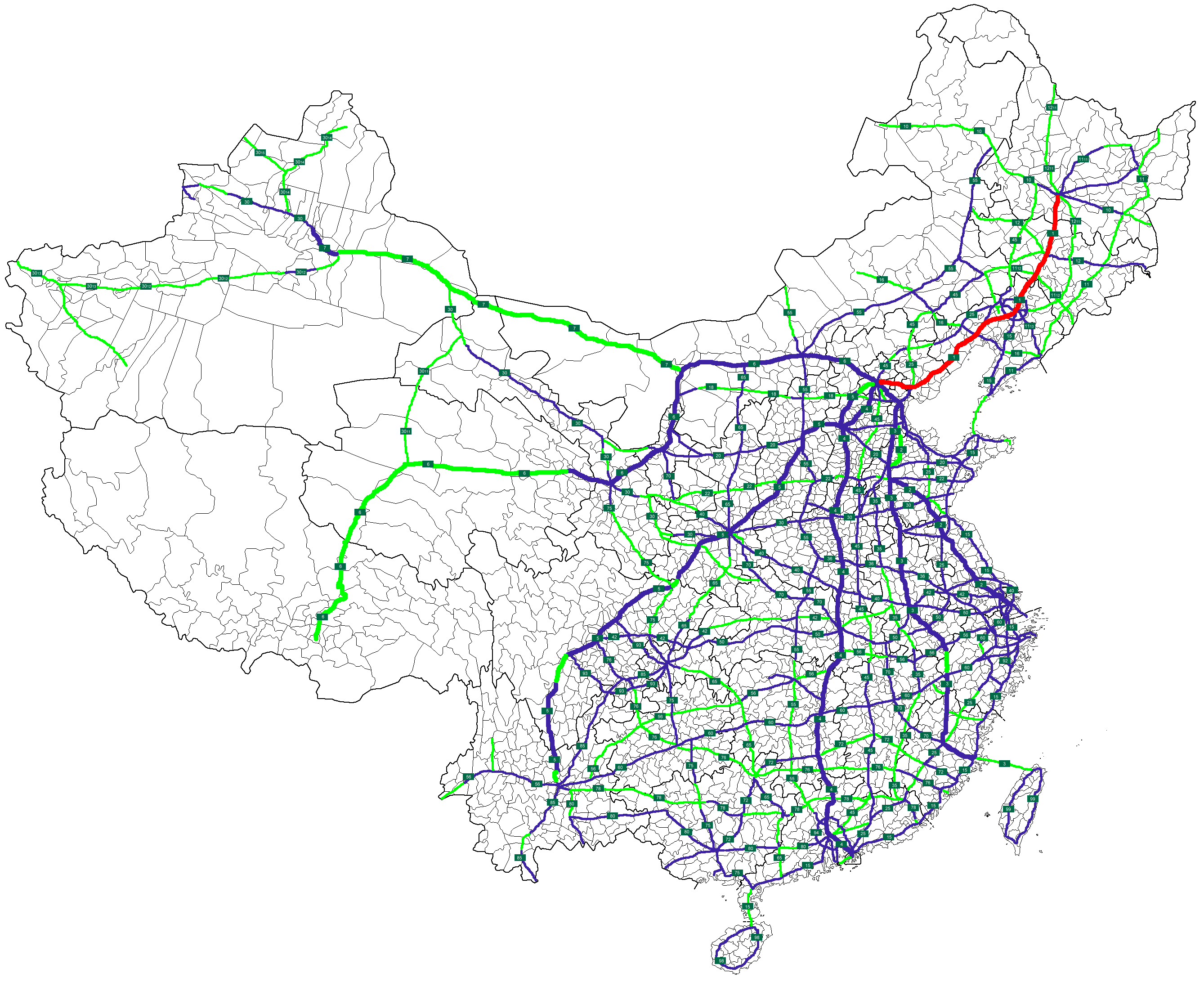 Source file(Map of NTHS Expressways of China.png) was uploaded ASDFGH at en.wikipedia. Later version(s) were uploaded by Nima Farid at en.wikipedia. Modification for NTHS Expressway G1 is my own work.